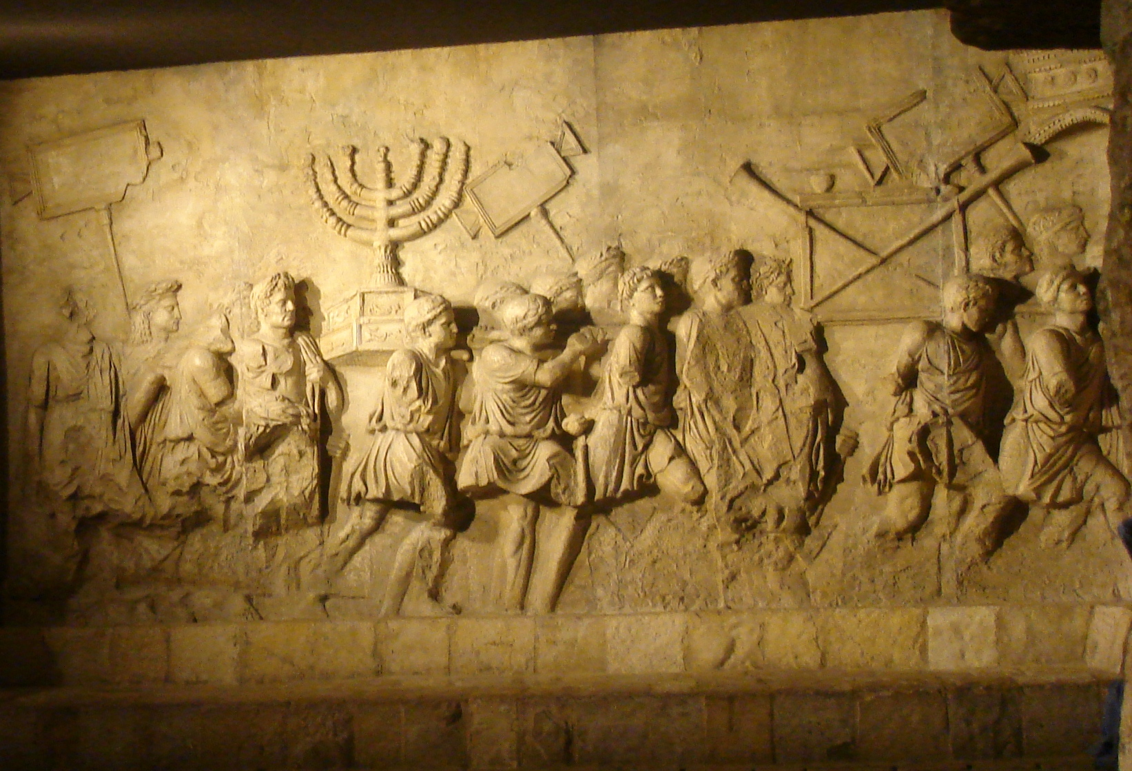 Roman Triumphal arch panel copy from Beth Hatefutsoth, showing spoils of Jerusalem temple.